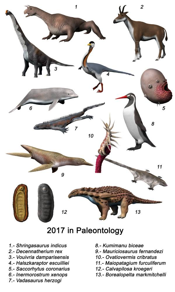 Examples of discovery's of 2017